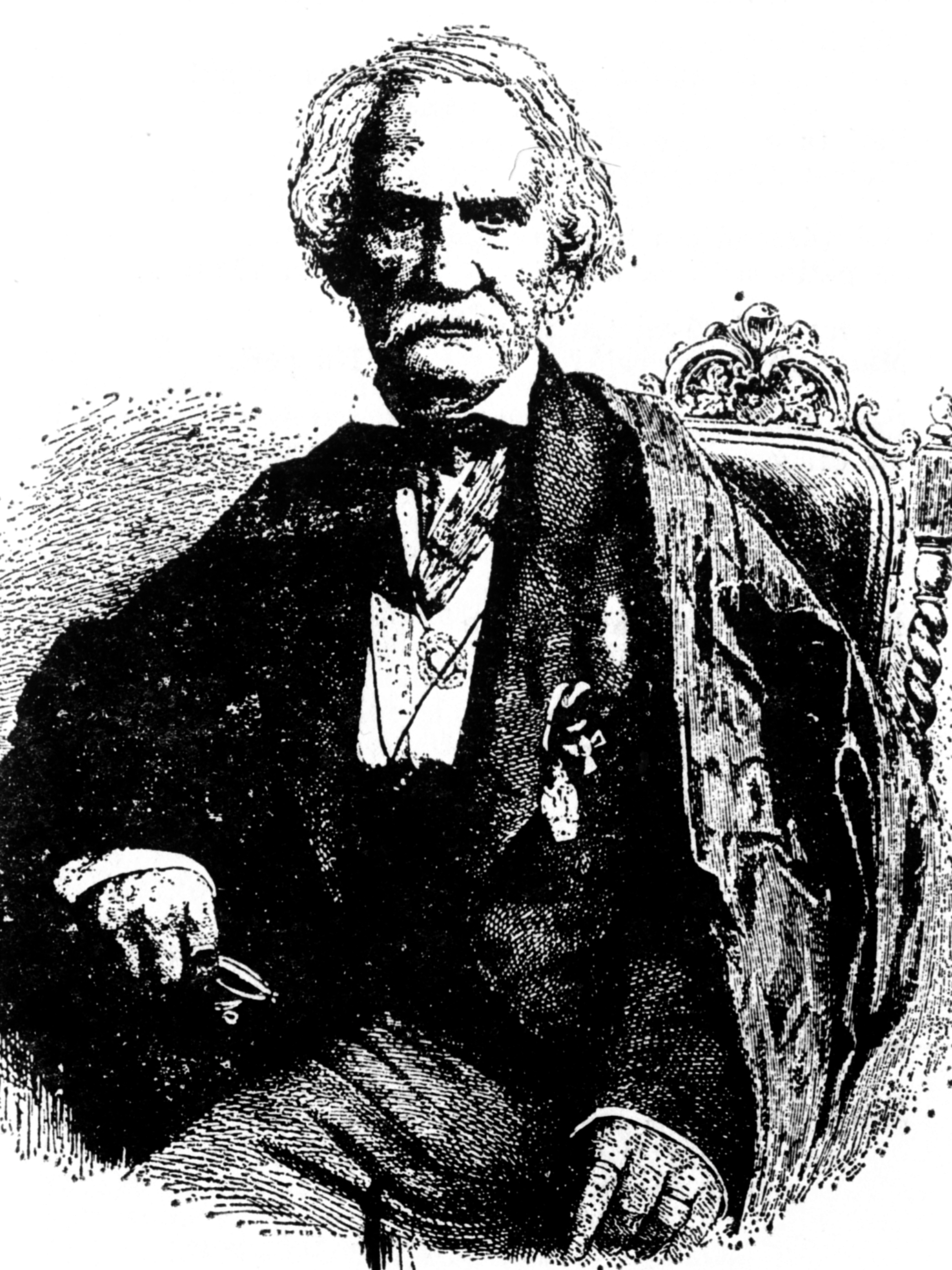 Gheorghe Asachi, Romanian intellectual - portrait showing him in old age, originally printed in the first edition of his collected short stories